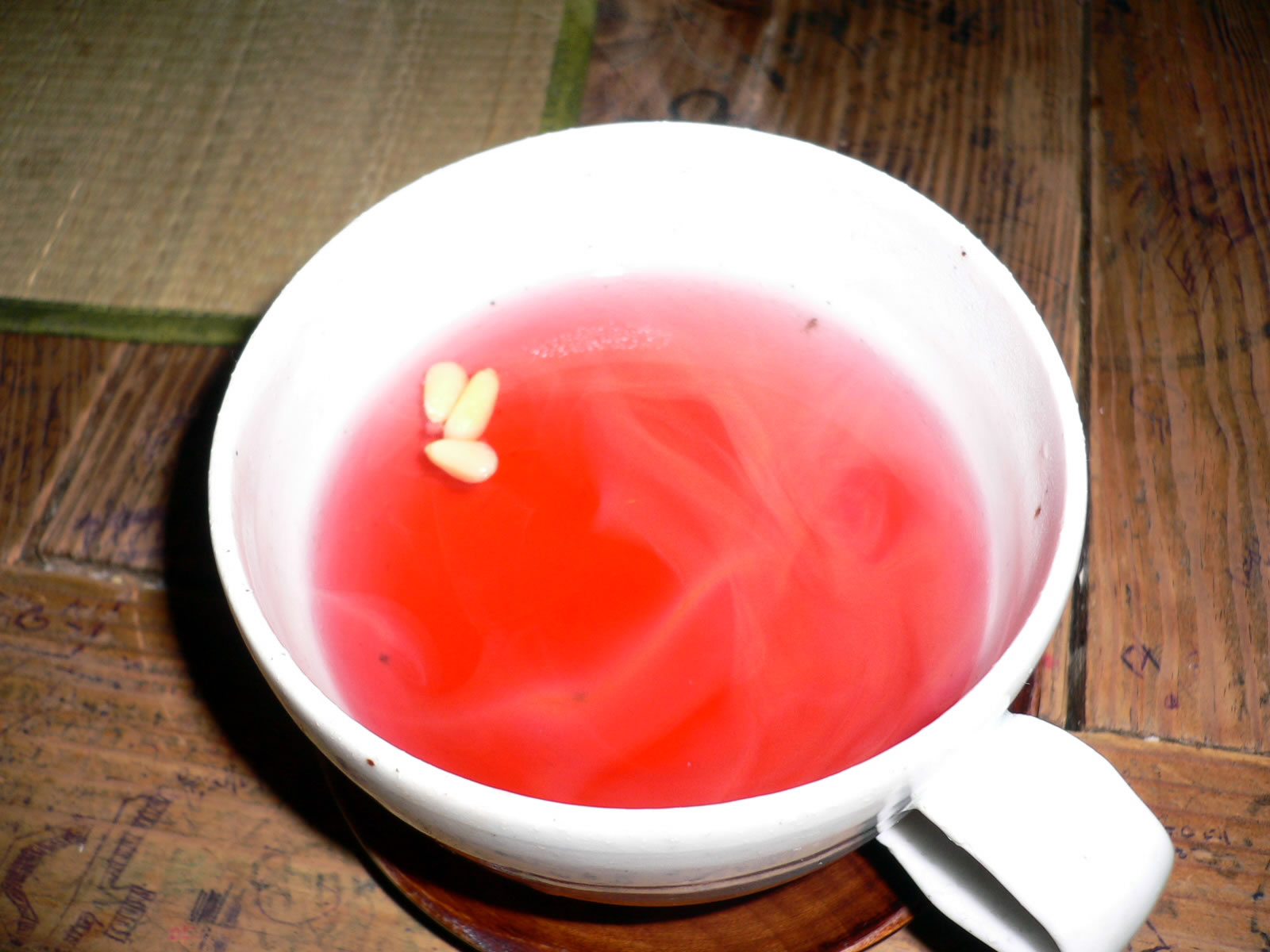 This Korean tea is Omija cha which means "tea with five flavors". At a tea room in Insadong, Seou, Korea